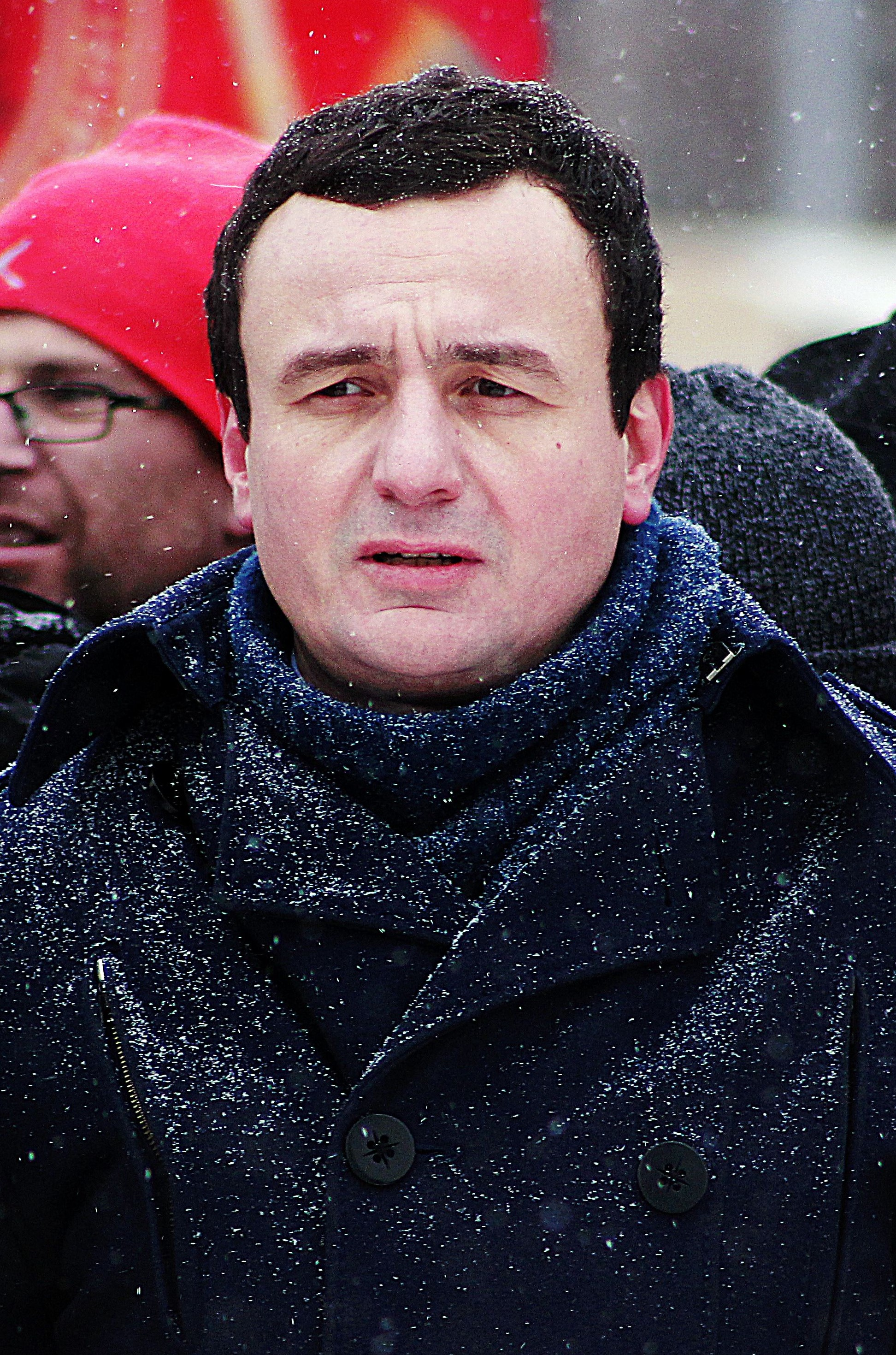 Cropped